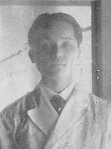 Huang Tushui